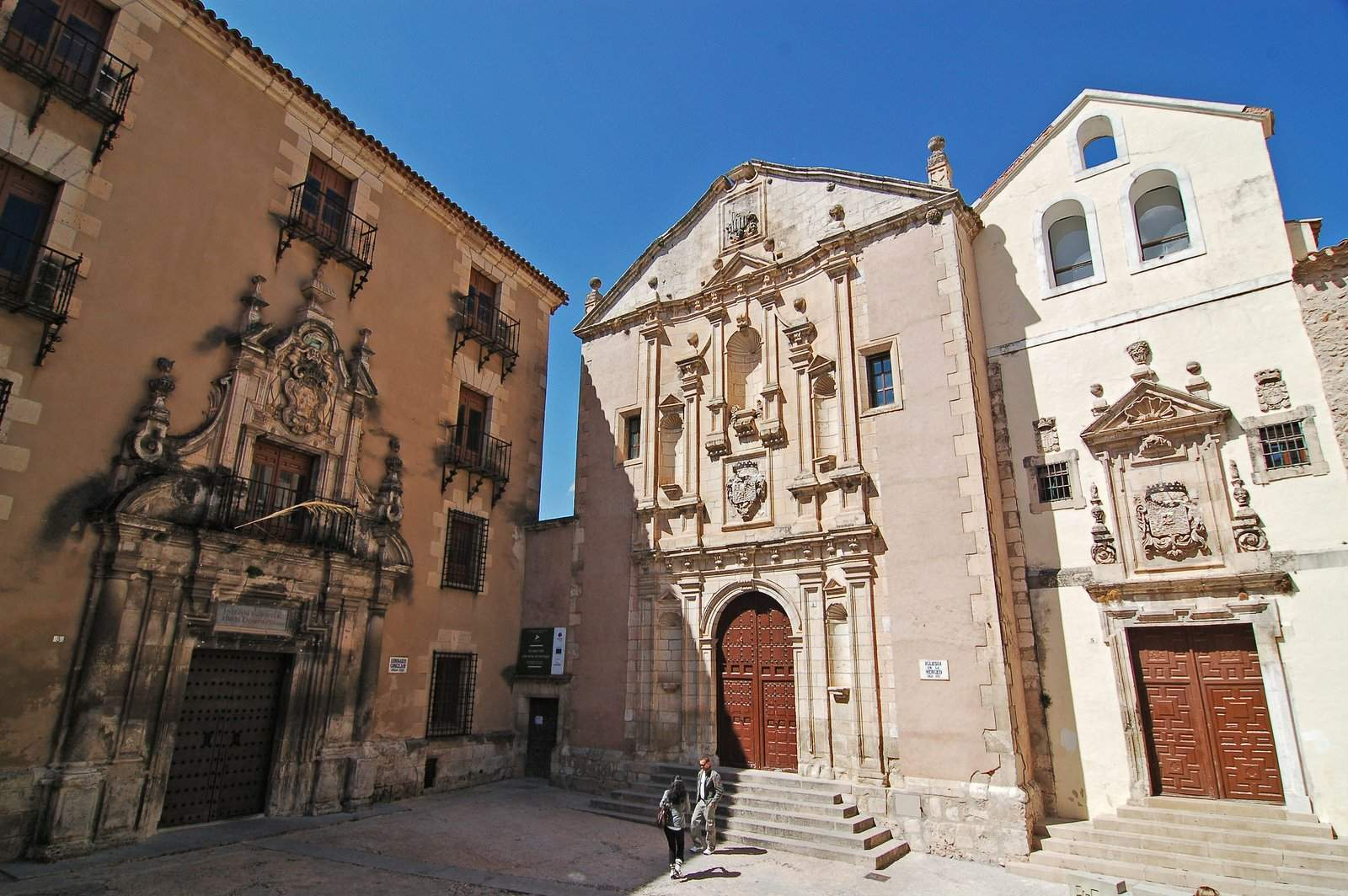 La Merced de Cuenca en España